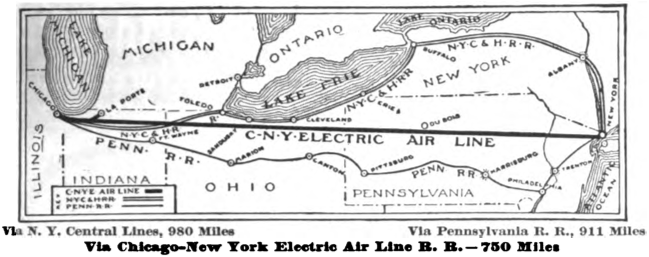 Map of the projected Chicago – New York Electric Air Line Railroad, comparing it to the New York Central Railroad and Pennsylvania Railroad.